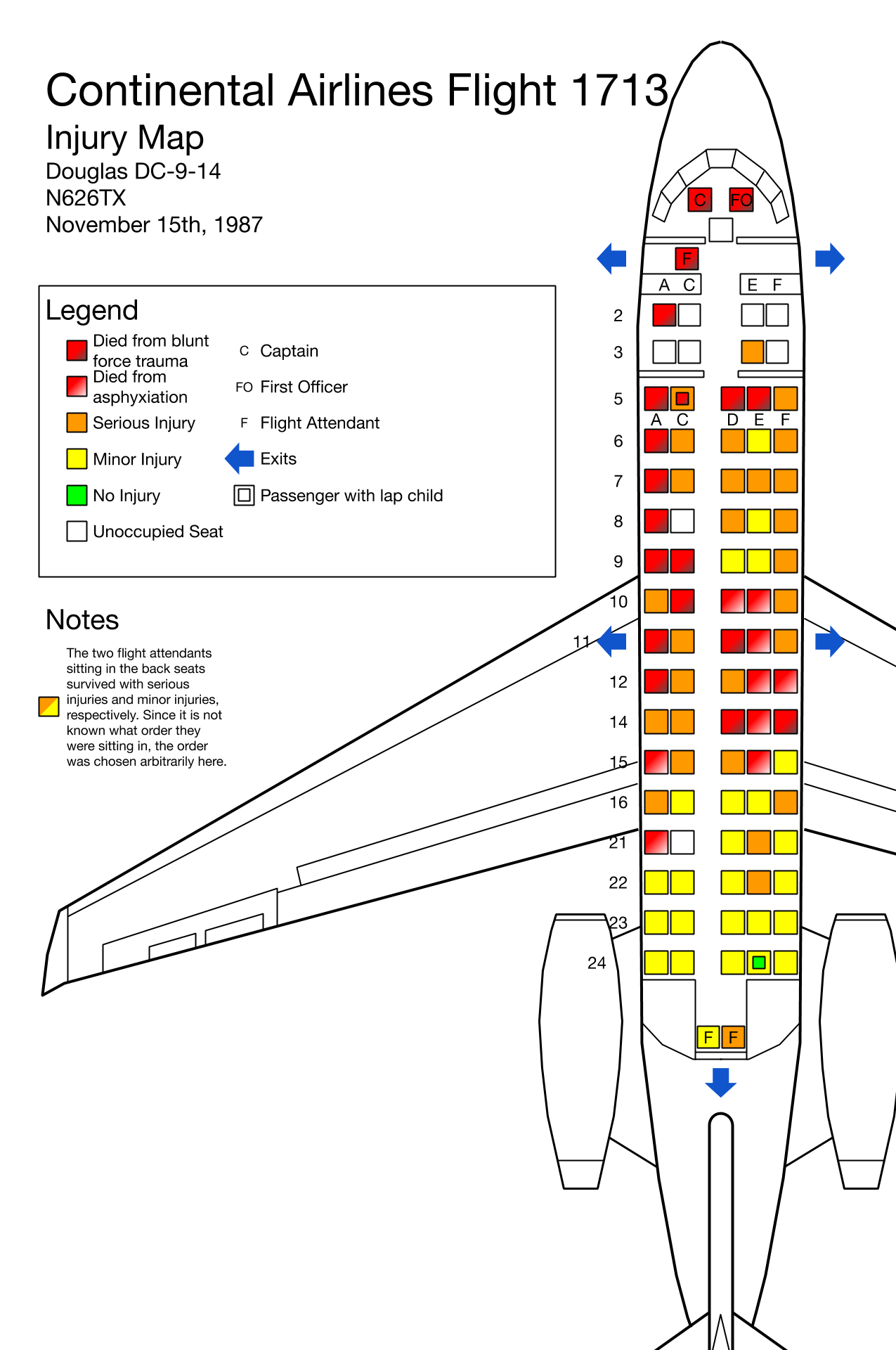 Seat plan of United Airlines Flight 232 showing non-survivors and survivors based on severity of injury and cause of death.